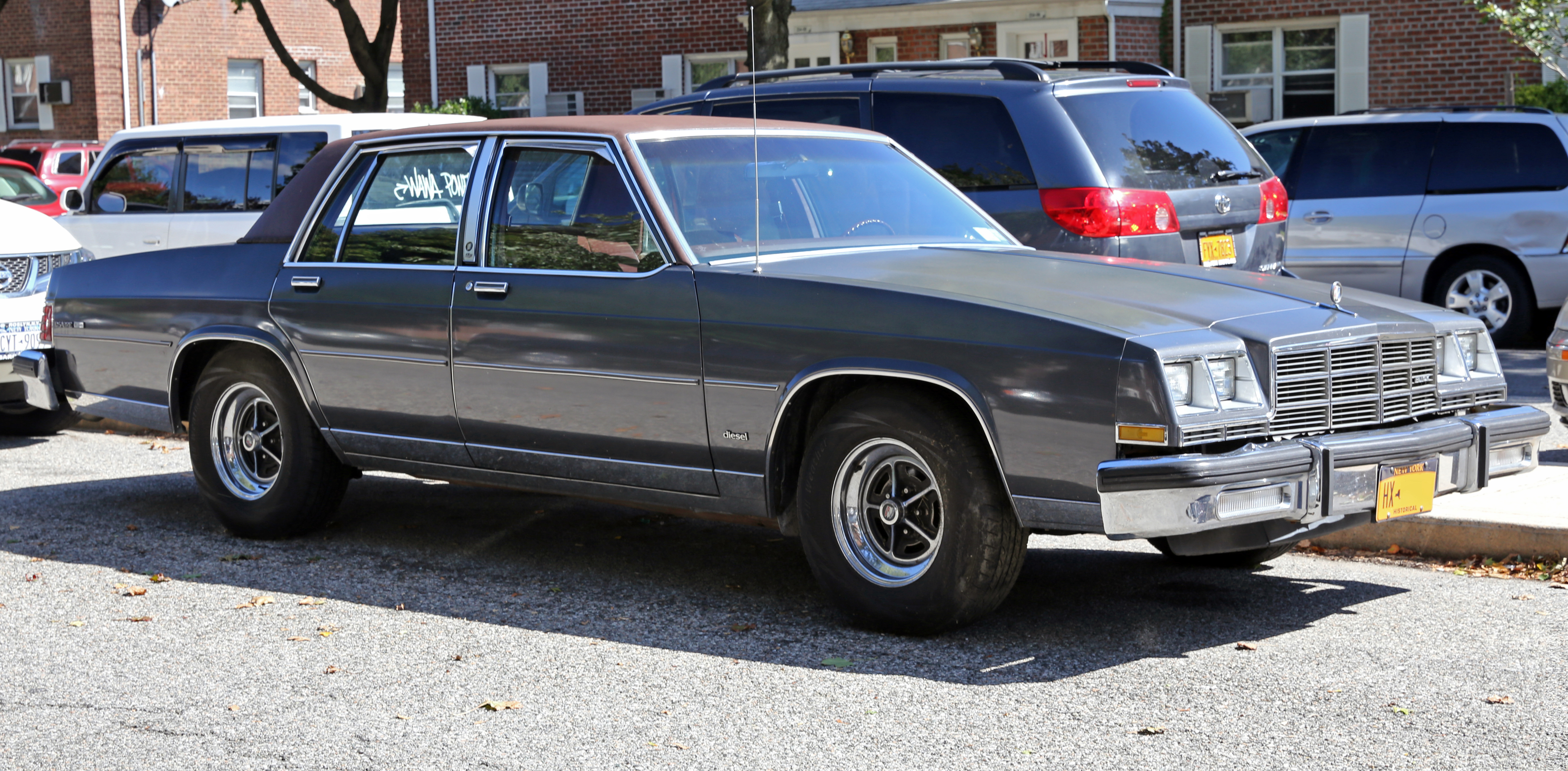 1982 Buick LeSabre Limited sedan with the troublesome Oldsmobile 350ci diesel V8. Assembled in Flint, MI.